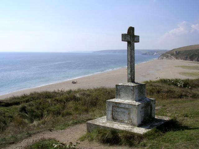 H.M.S. Anson monument, Loe Bar. This monument, erected in March 1949, is found on the low sandy cliff to the south of Loe Bar. The inscription on the seaward face reads "SACRED TO THE MEMORY OF ABOUT 100 OFFICERS AND MEN OF H.M.S. ANSON WHO WERE DROWNED WHEN THIS SHIP WAS WRECKED ON LOE BAR 29TH DEC. 1807, AND BURIED HEREABOUT. HENRY TRENGROUSE OF HELSTON WAS SO IMPRESSED BY THIS TRAGEDY, THAT HE INVENTED THE LIFE SAVING ROCKET APPARATUS WHICH HAS SINCE BEEN INSTRUMENTAL IN SAVING THOUSANDS OF LIVES."